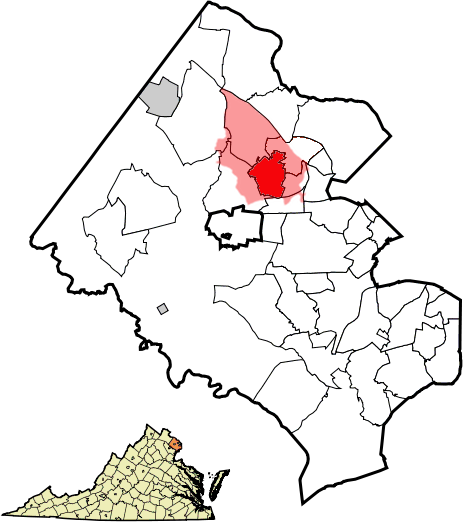 A map comparing the Vienna, VA postal area and official city limits.